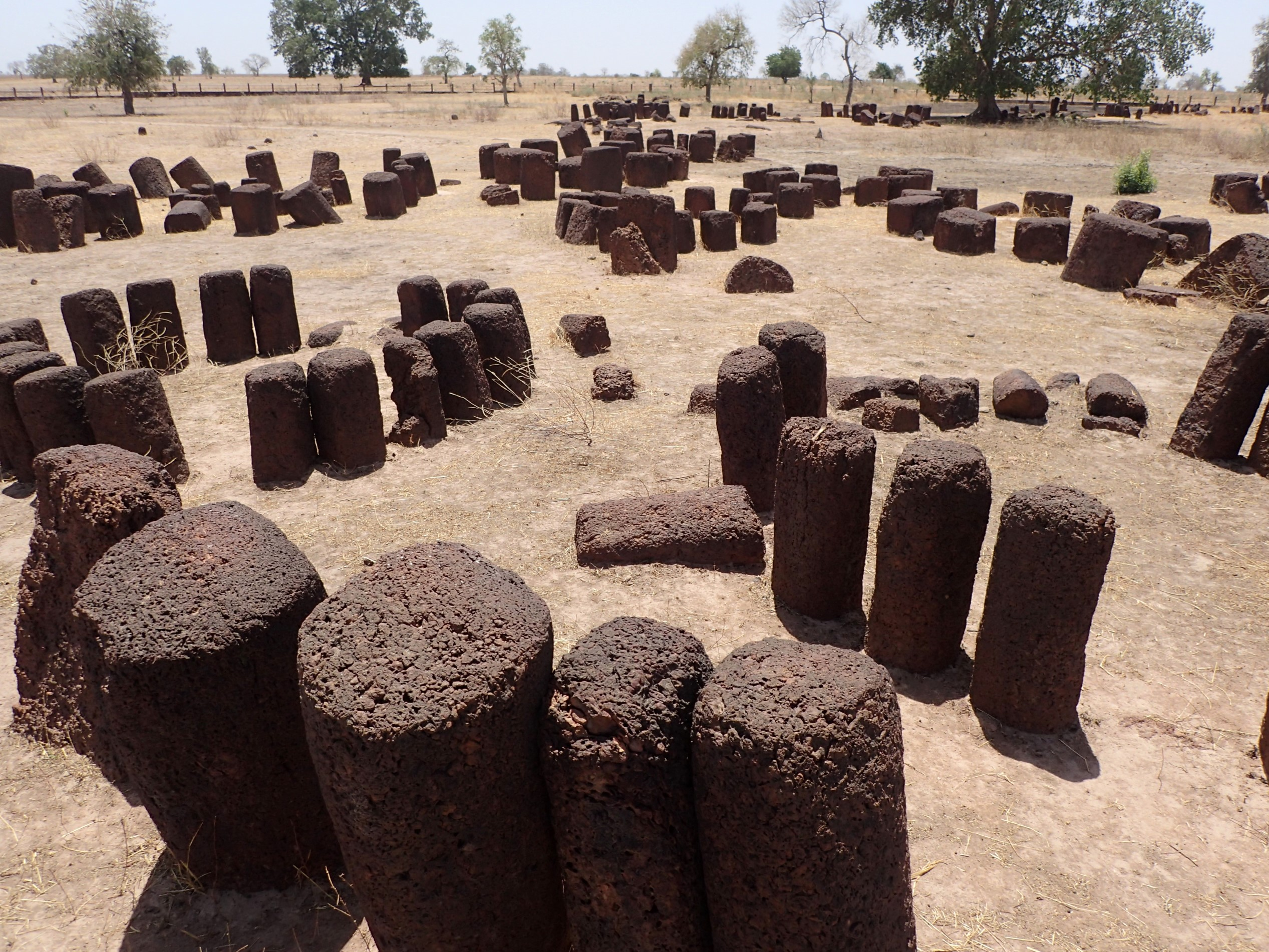 Stone circles of Sine Ngayène, Senegal, Kaolack province.